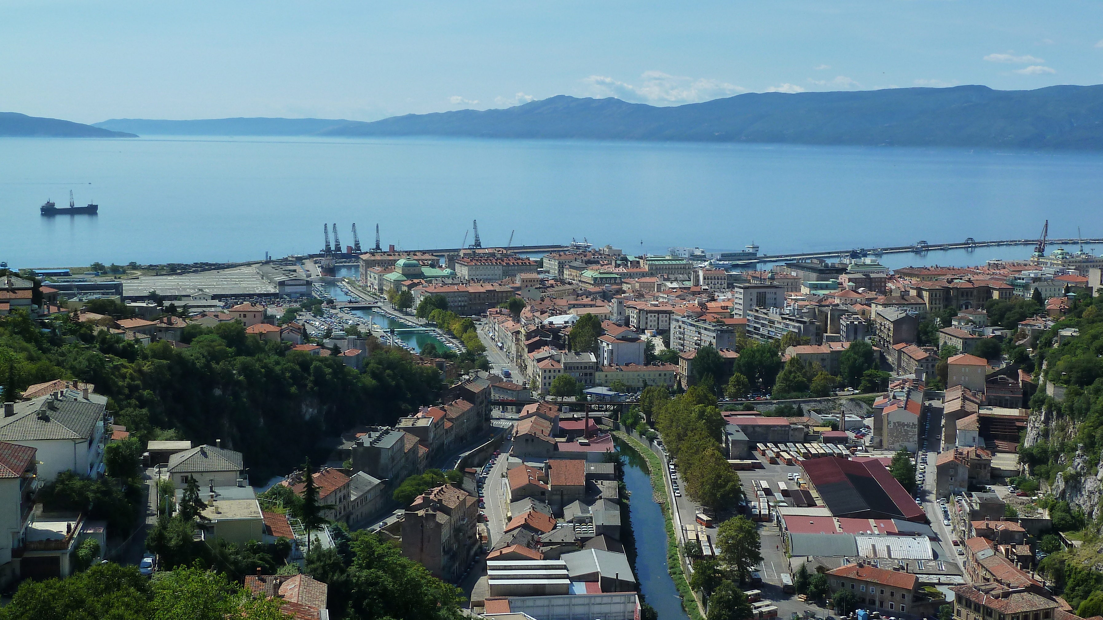 Bay of Rijeka, Croatia. View from Trsat Castle.